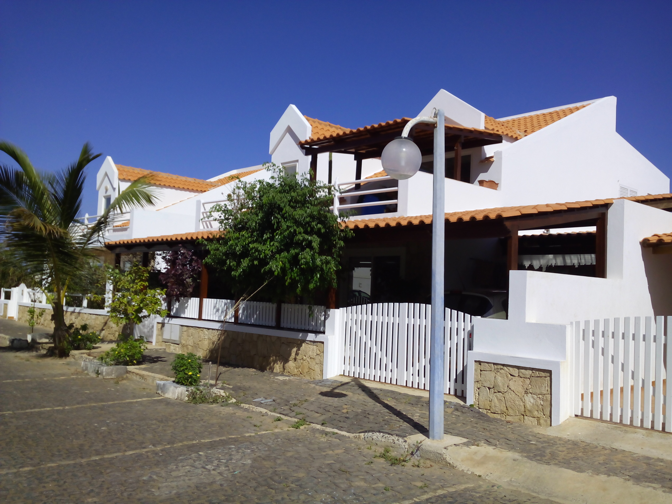 House at Murdeira, Sal, Cape Verde